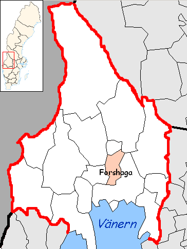 Forshaga Municipality in Värmland County Designd by me, based on Image:Värmland County.png